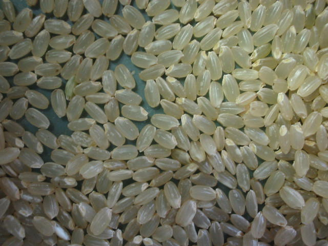 Hulled rice of Akitsuho - a variation of Japanese short-grain rice.